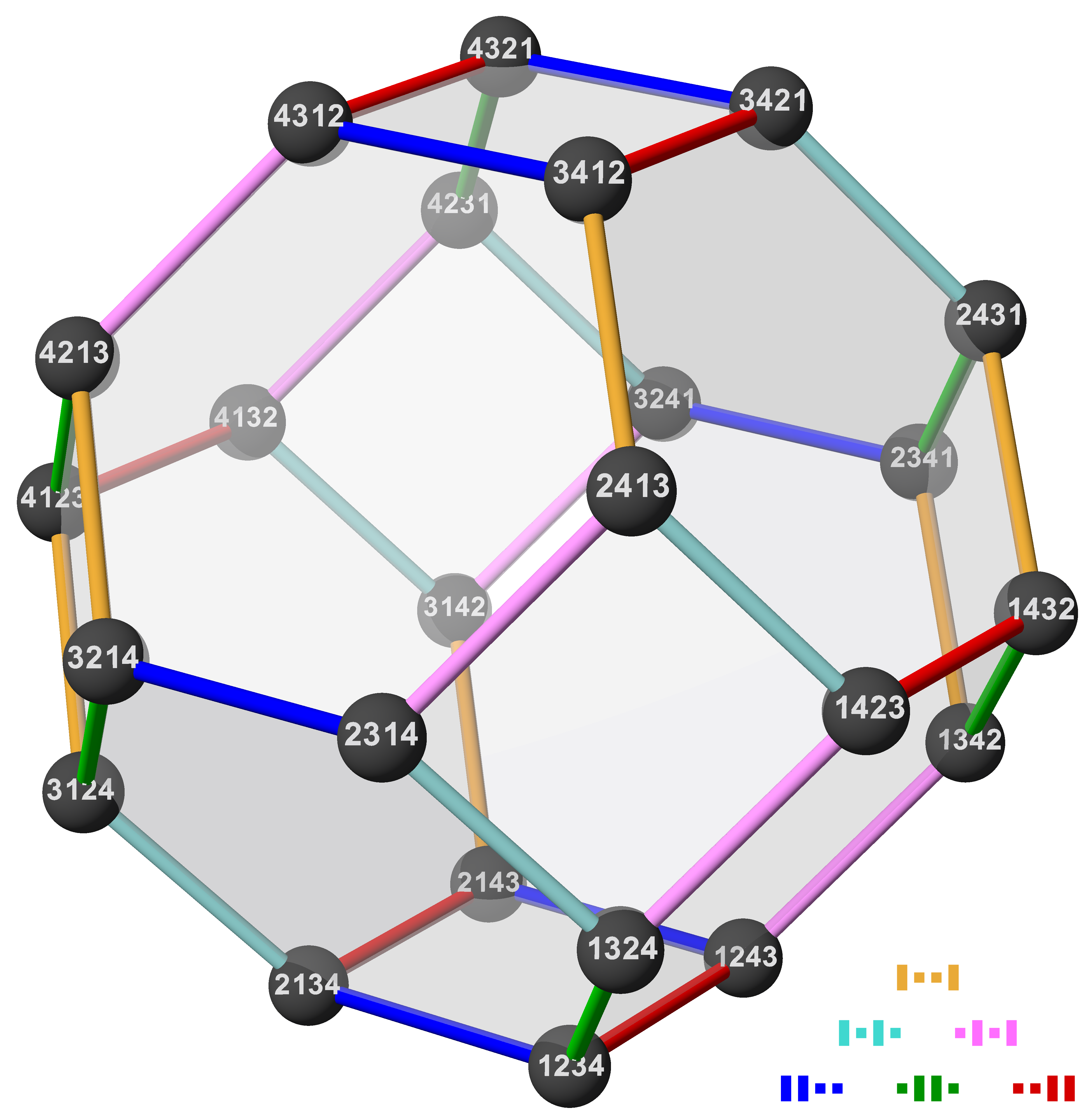 the six edge directions Permutohedron of the symmetric group S4 Parallel edges have the same color. The color shows which two places are swapped, as indicated by the triangle of pairs in the bottom right corner. In the bottom vertex of an edge the elements on these two places are in their natural order, and in the top vertex they are reversed. (Consequently, the bottom vertex of the whole diagram is completely in natural order, and the top vertex is completely reversed.) This image was created with POV-Ray. trunc_octa_perm.pov